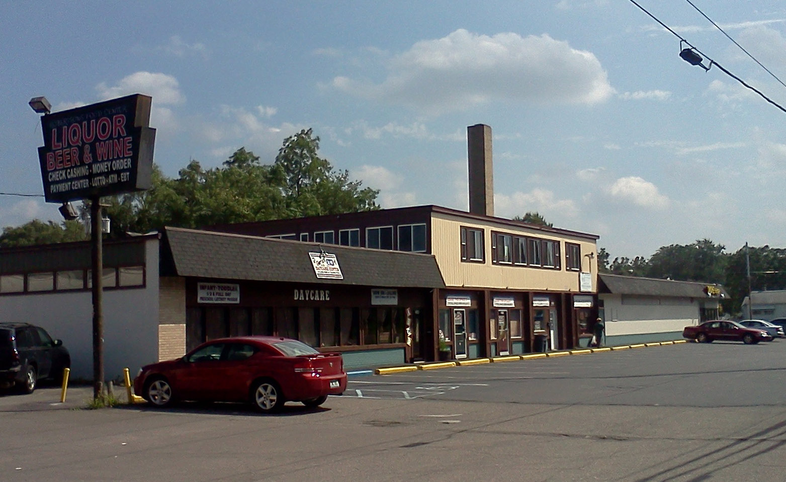 Commercial building in Norwayne Historic District, Westland MI